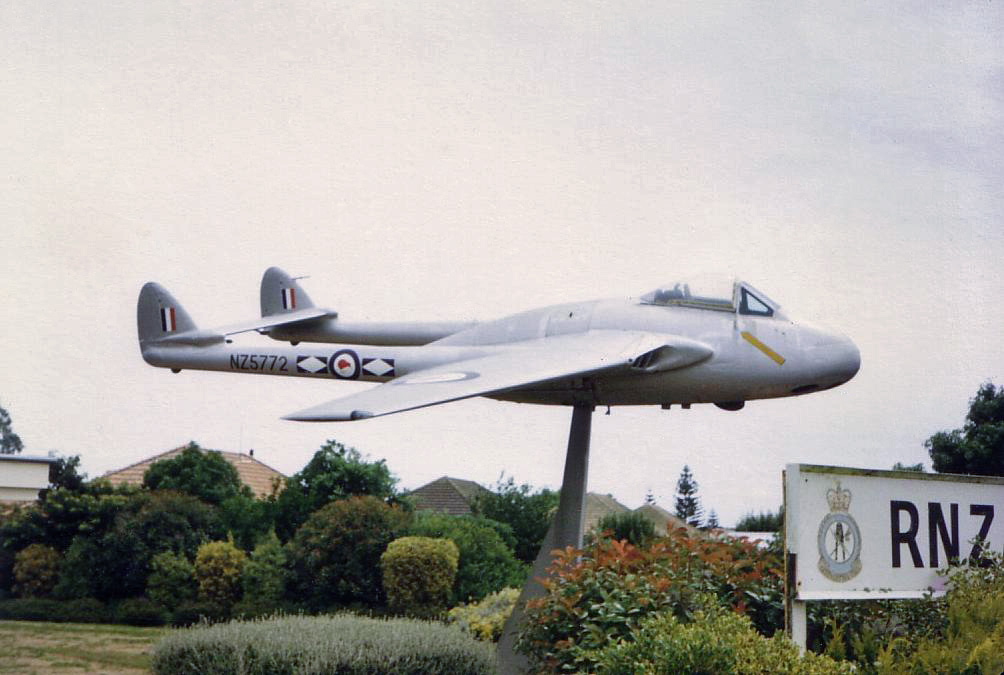 No. 14 Squadron RNZAF de Havilland Vampire gate guardian at Ohakea air base in the mid 1980s. It has been removed from this position and restored with a new GRP nose section and will feature in a new Aviation Centre planned for Ohakea in 2010.